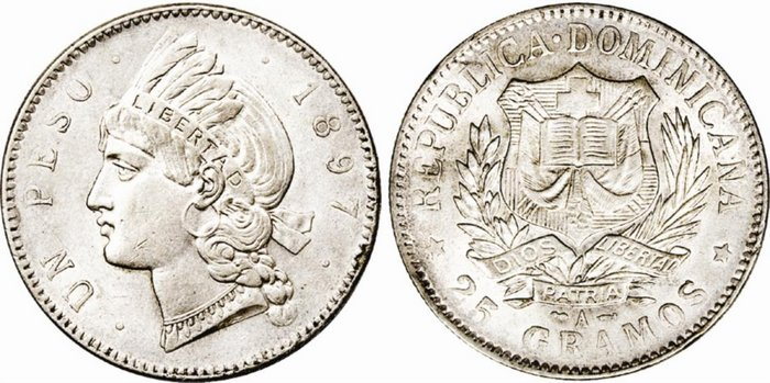 Dominican Republic - 1 peso Coin